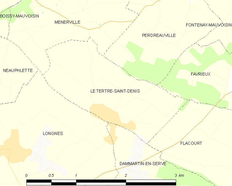 Map of French municipality Le Tertre-Saint-Denis